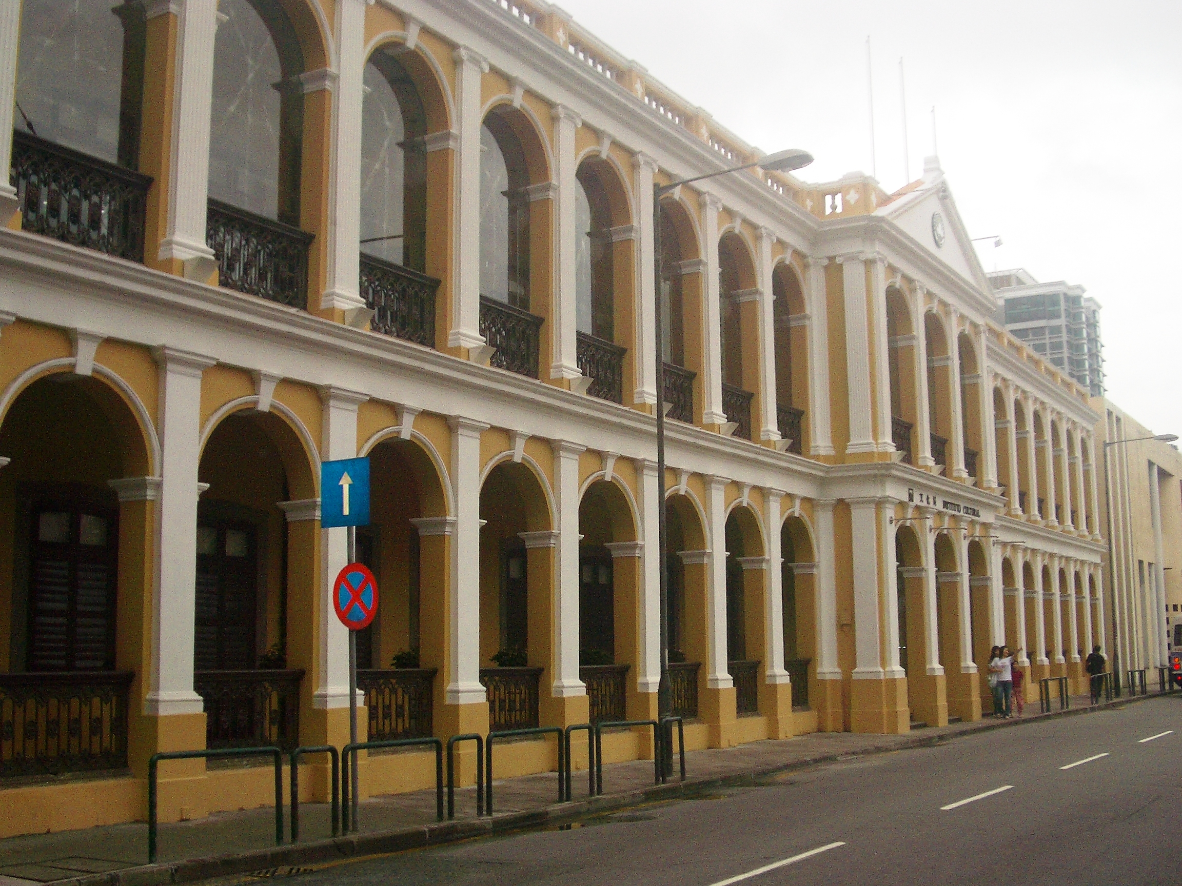 i took the picture